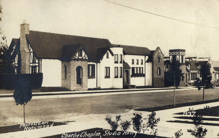 Front of a Chaplin Studios postcard postmarked 8 March 1922. The image shows the entrance to the studio.